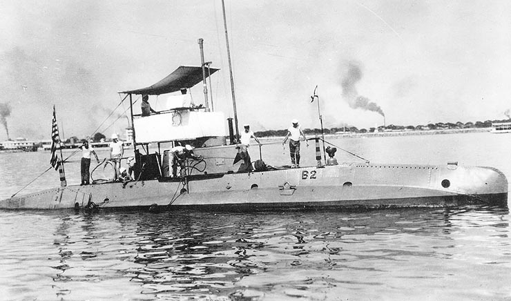 USS B-2 (Submarine # 11, ex-Cuttlefish) off the Cavite Navy Yard, Philippine Islands, with an awning rigged and crew members on deck, circa 1913-1917. Original caption: “Photo # NH 63093 USS B-2 (ex-Cuttlefish) off the Cavite Navy Yard, circa 1913-1917” — removed caption